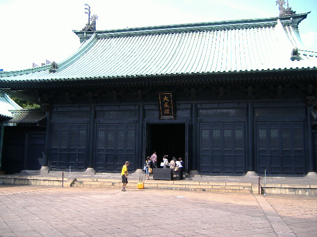 Taisei-Den of Yushima Seido